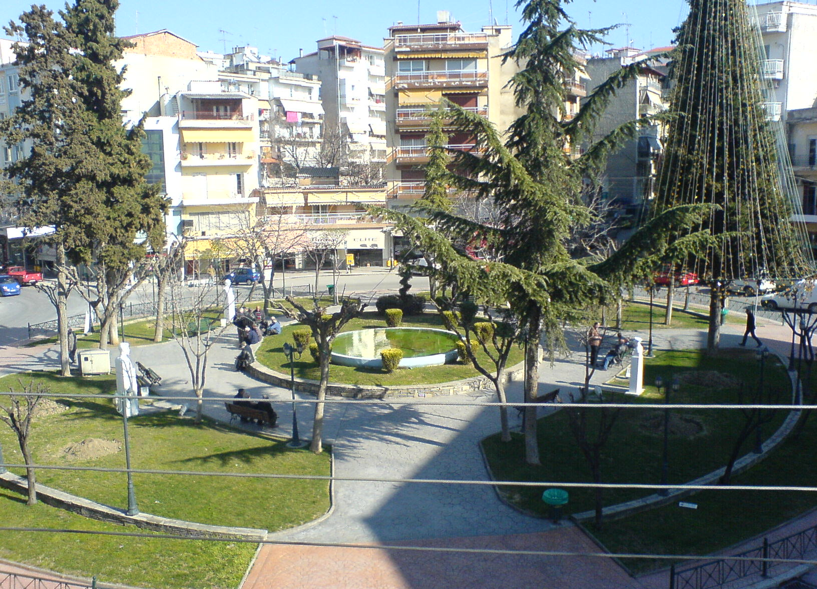 The tower of Giannitsa, Greece.